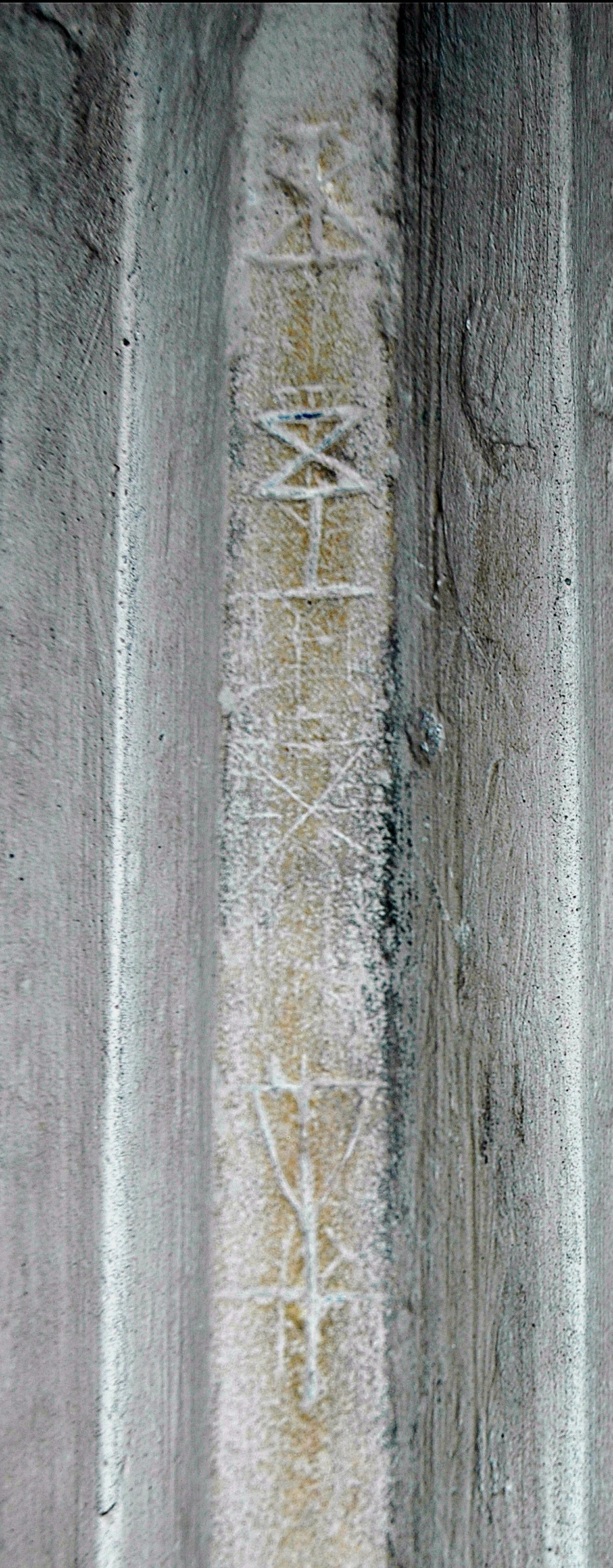 Masonic varvings, Rosslyn chapel, Scotland